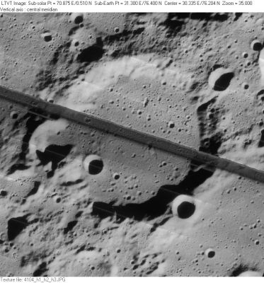 LO-IV-104H The diagonal stripe is a flaw in the film.